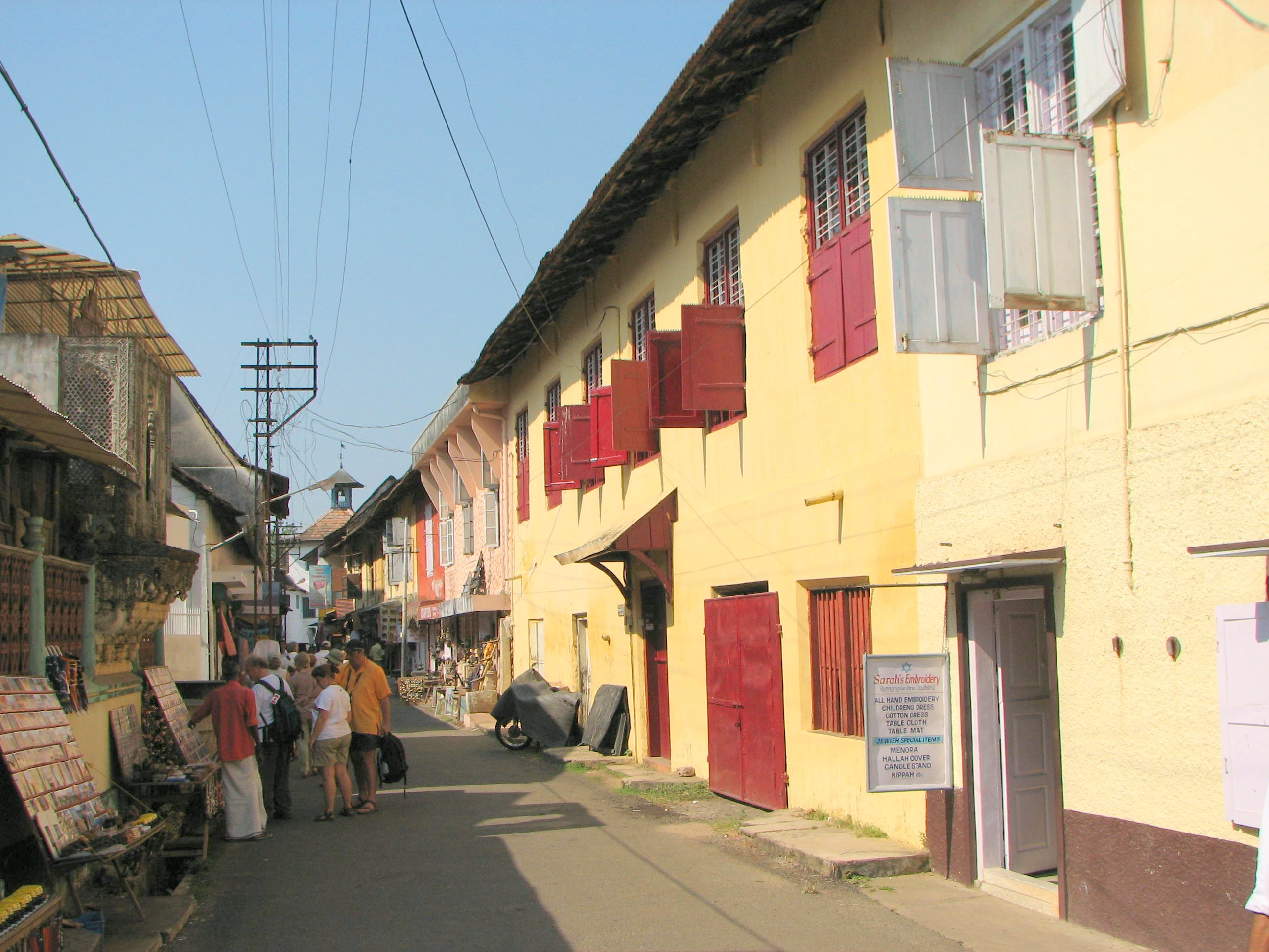 Street of Kochi, India